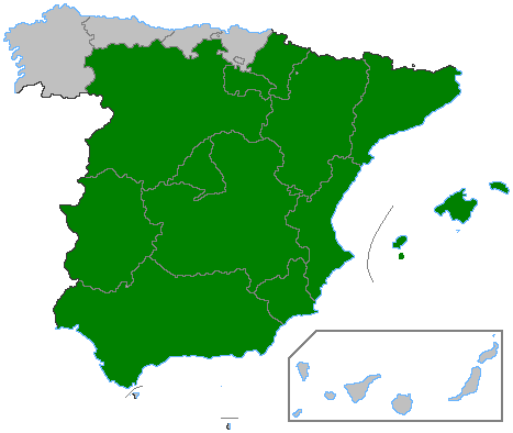 Map of Spain, the green comunitys are Caprabo.